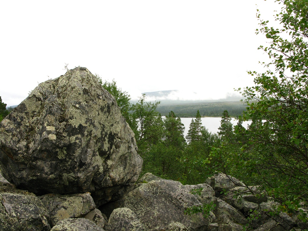 Töfsingdalens nationalpark med Särsjön i bakgrunden